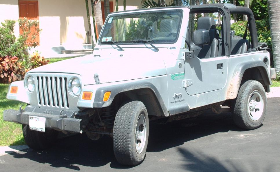 1997-2006 Jeep Wrangler photographed in Mazatlan, Sinaloa, Mexico.